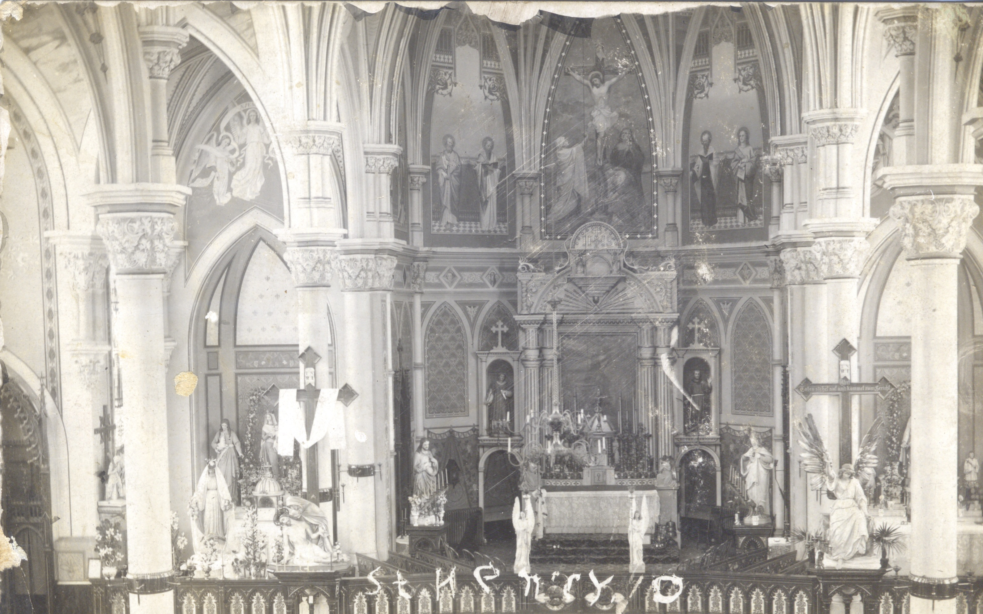 Persistent URL: Subject: Churches; Altars; Catholic churches; Ohio--St. Henry; miami digital collections; bowden postcard collection